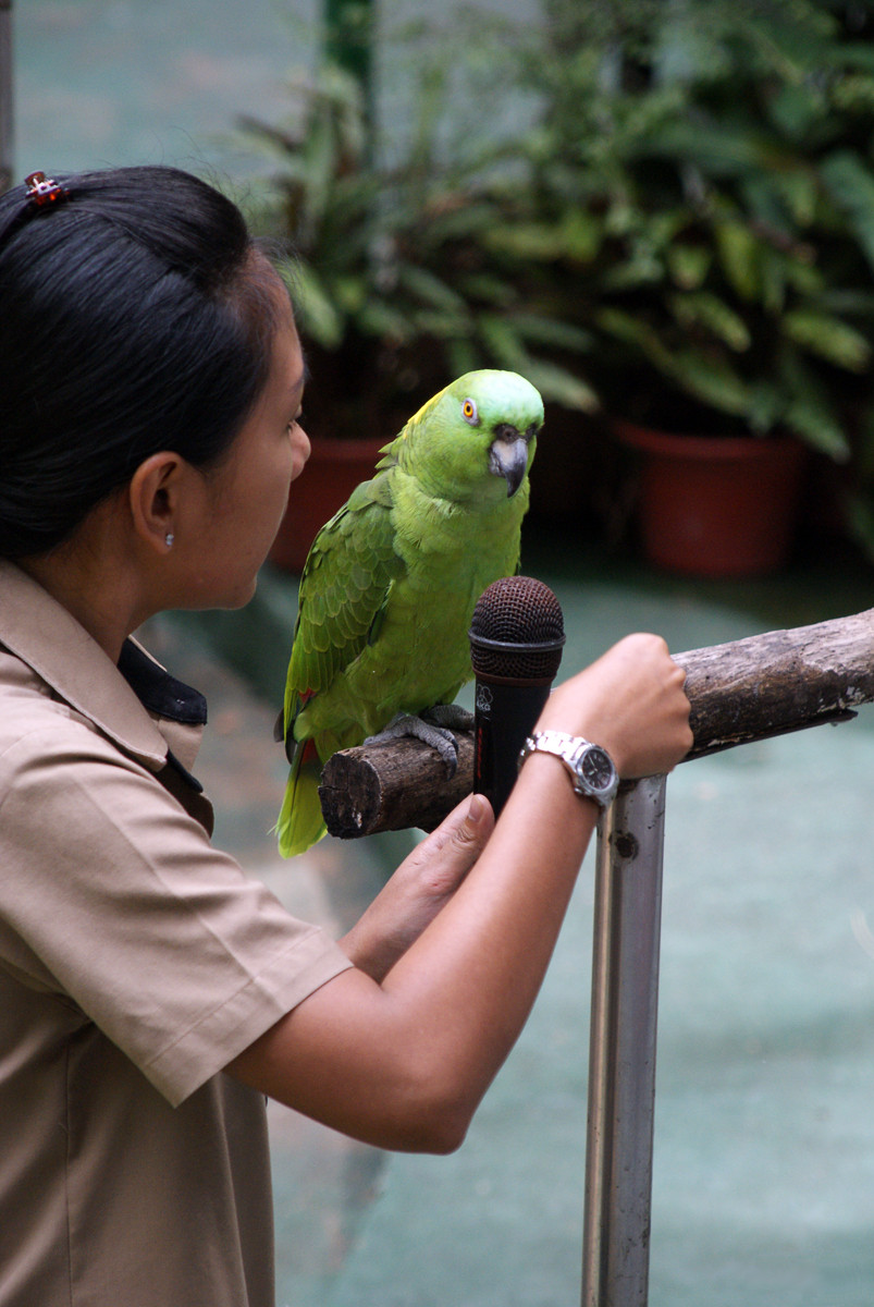 Yellow-naped Amazon at Kuala Lumpur Bird Park, Malaysia. It looks like a zoo keeper is prompting it to talk into a microphone.